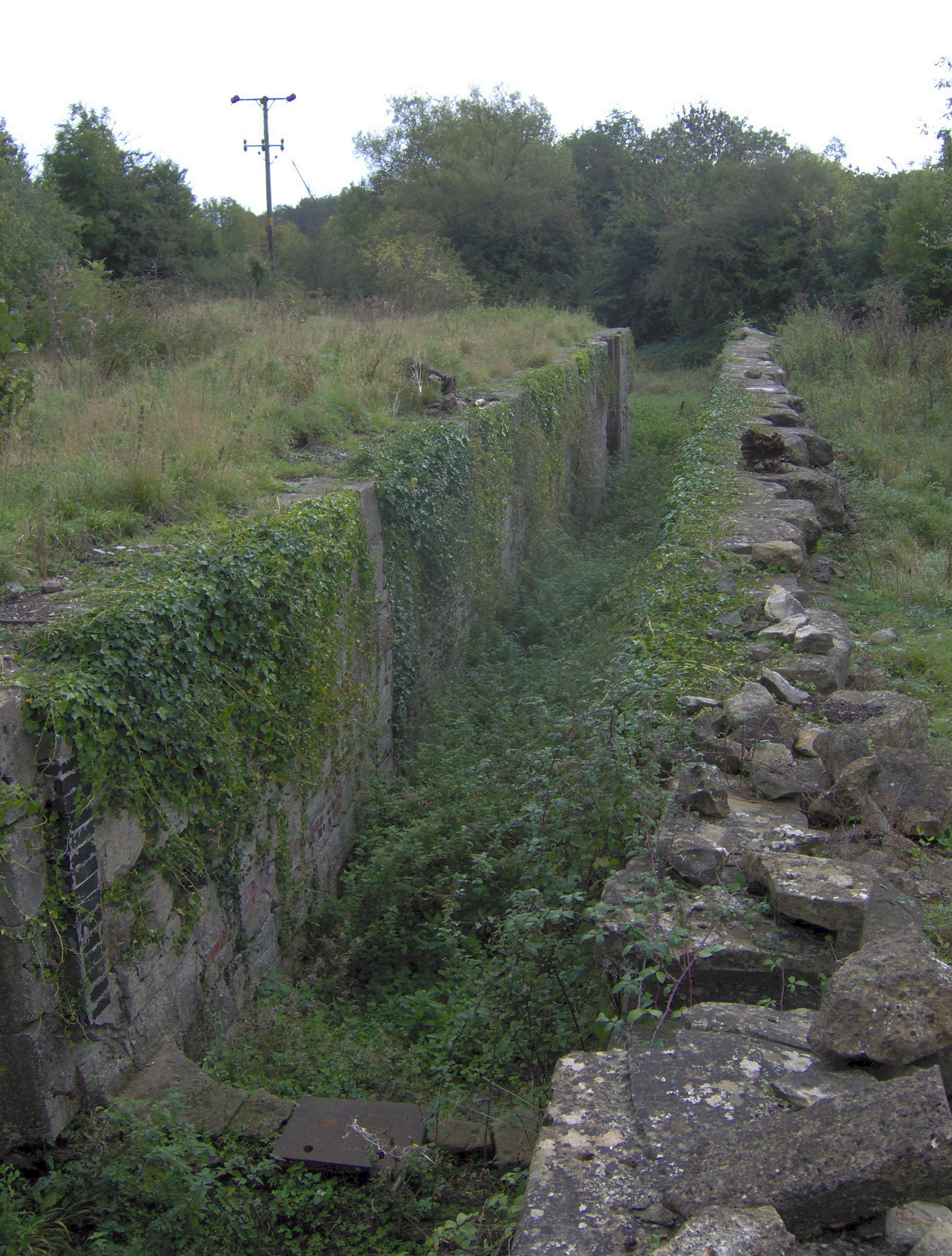 Derelict Lock at Combe Hay on the Somerset Coal Canal. Taken by Rod Ward Oct 2006